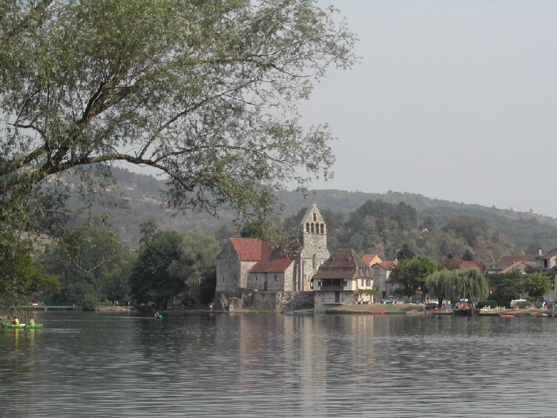 Beaulieu-Sur-Dordogne and Dordogne view from Altillac